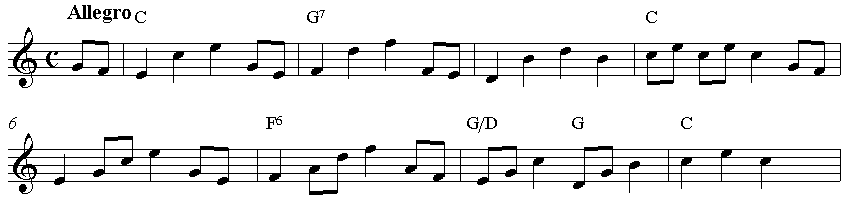 Papageno's glockenspiel tune from Mozart's Die Zauberflote